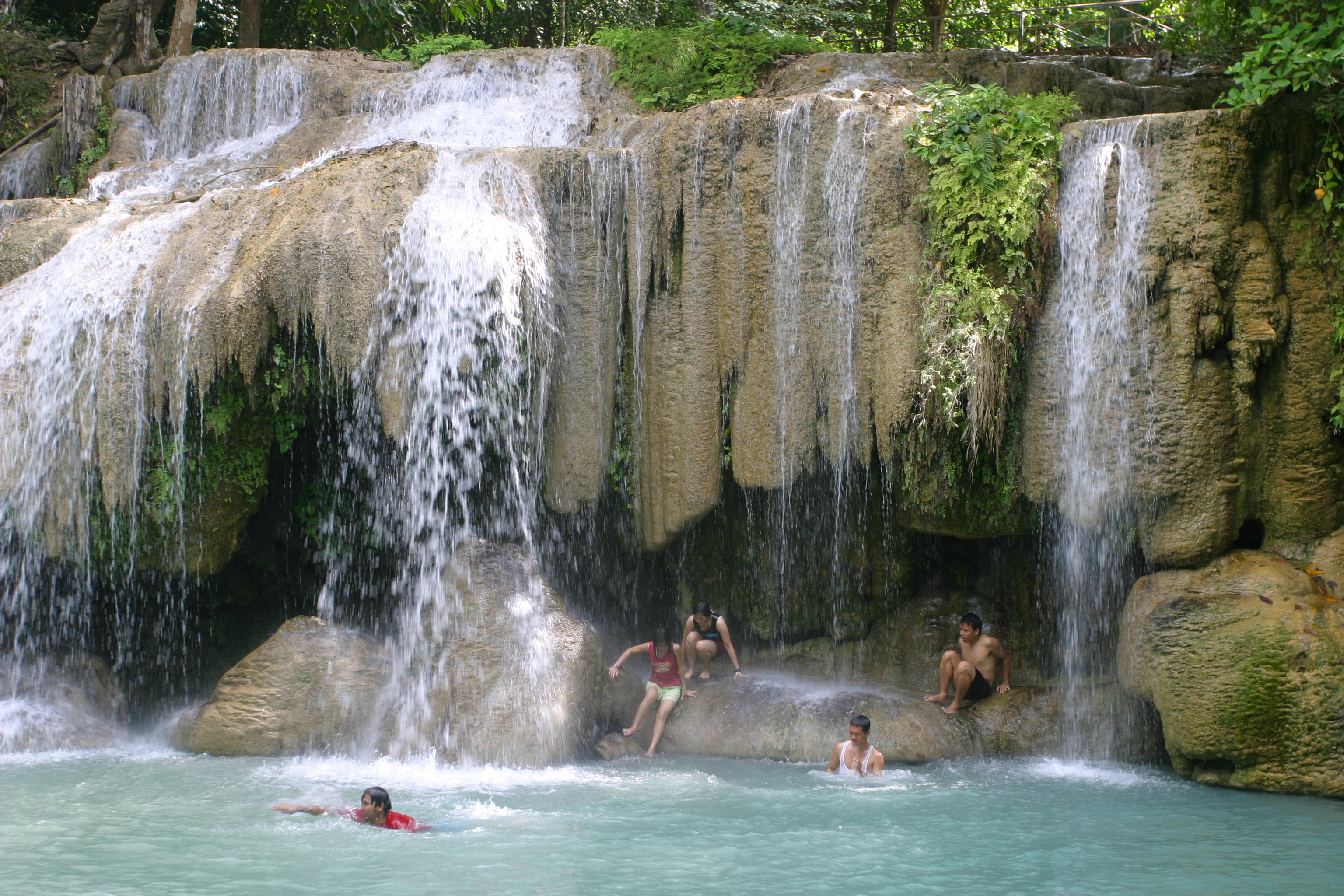 Erawan Waterfall in Erawan National Park, Kanchanaburi Province, Thailand. Taken by myself with a Canon 10D and 17-40mm f/4L lens.